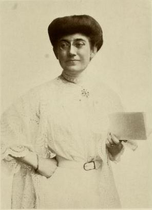 Florence Hayward, Kajiwara Photo, Johnson, Anne (André) "Mrs. Charles P. Johnson", 1871-. Notable women of St. Louis, 1914; (Kindle Location 4402). [St. Louis, Woodward.]